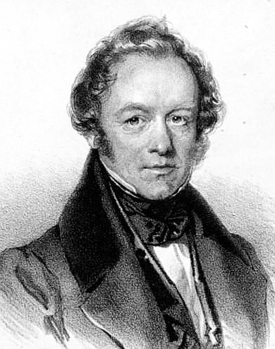 German composer Peter Josef von Lindpaintner (1791-1856) by Joseph Kriehuber (1800–1876).